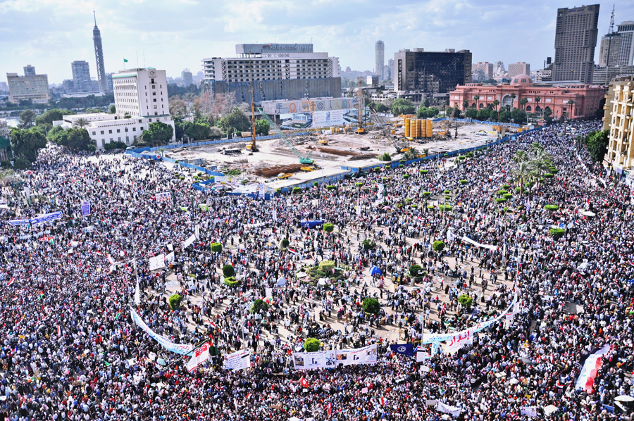 Hundreds of thousands demanding trial for Mubarak, Gamal, Fathi Sorour, Safwat Alsharif and Zakariya Azmy.